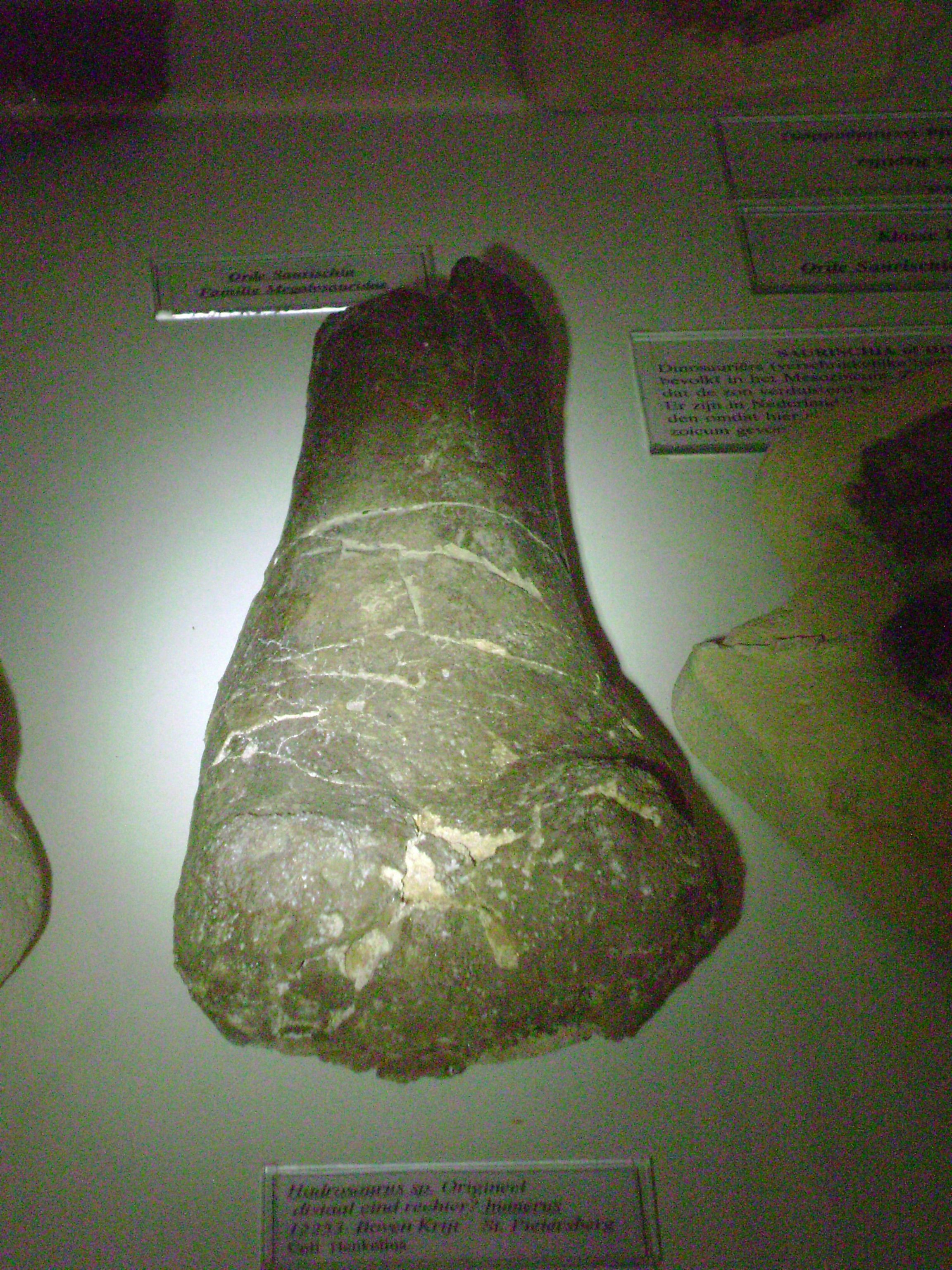 A humerus, specimen TM 11253, possibly belonging to Orthomerus, at the Teylers Museum, Haarlem